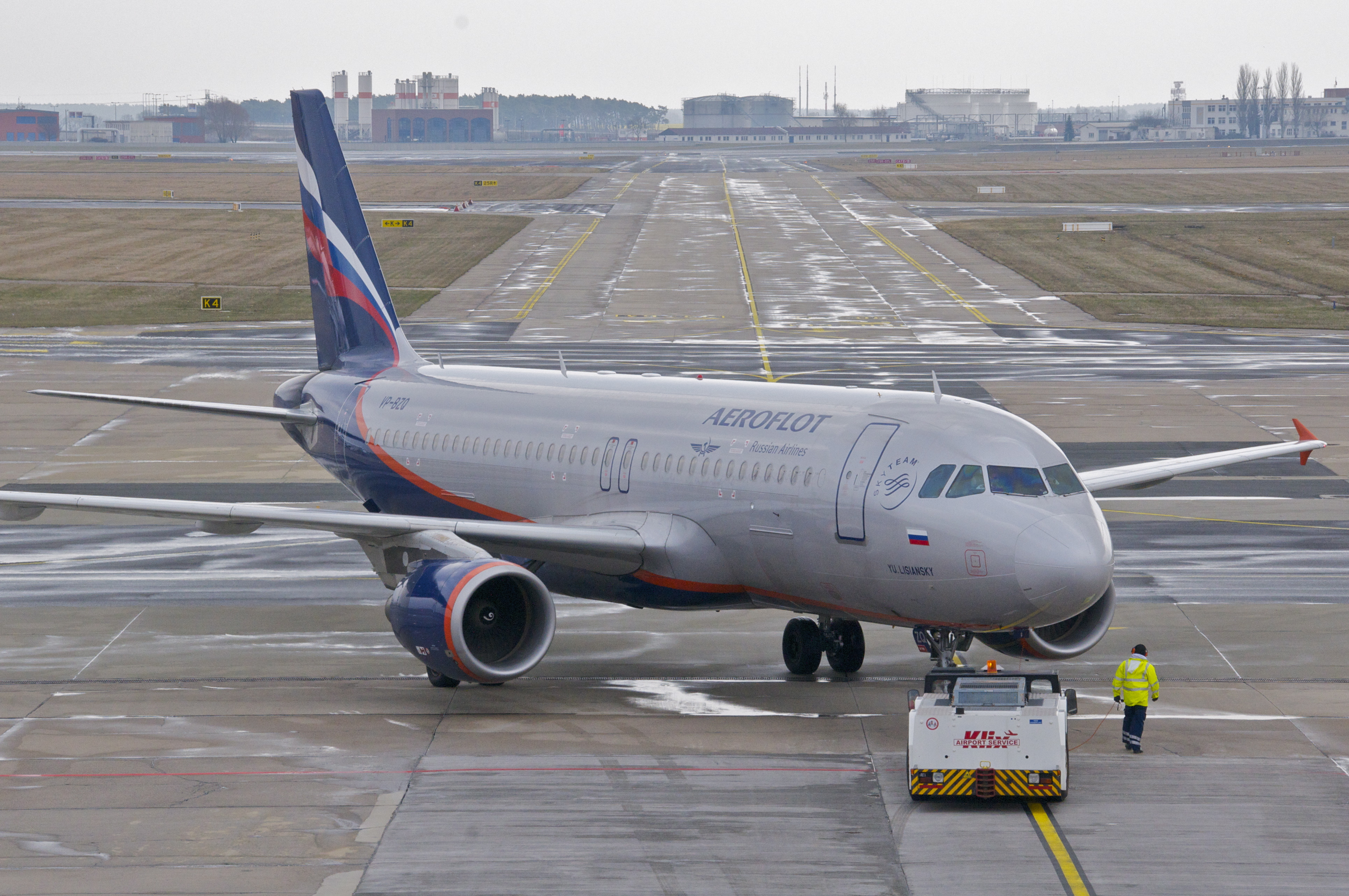 This A320, named 'Yuri Lisiansky', took its first flight on September 19, 2008 and was delivered to SU on October 7, 2008...(c/n 3627)